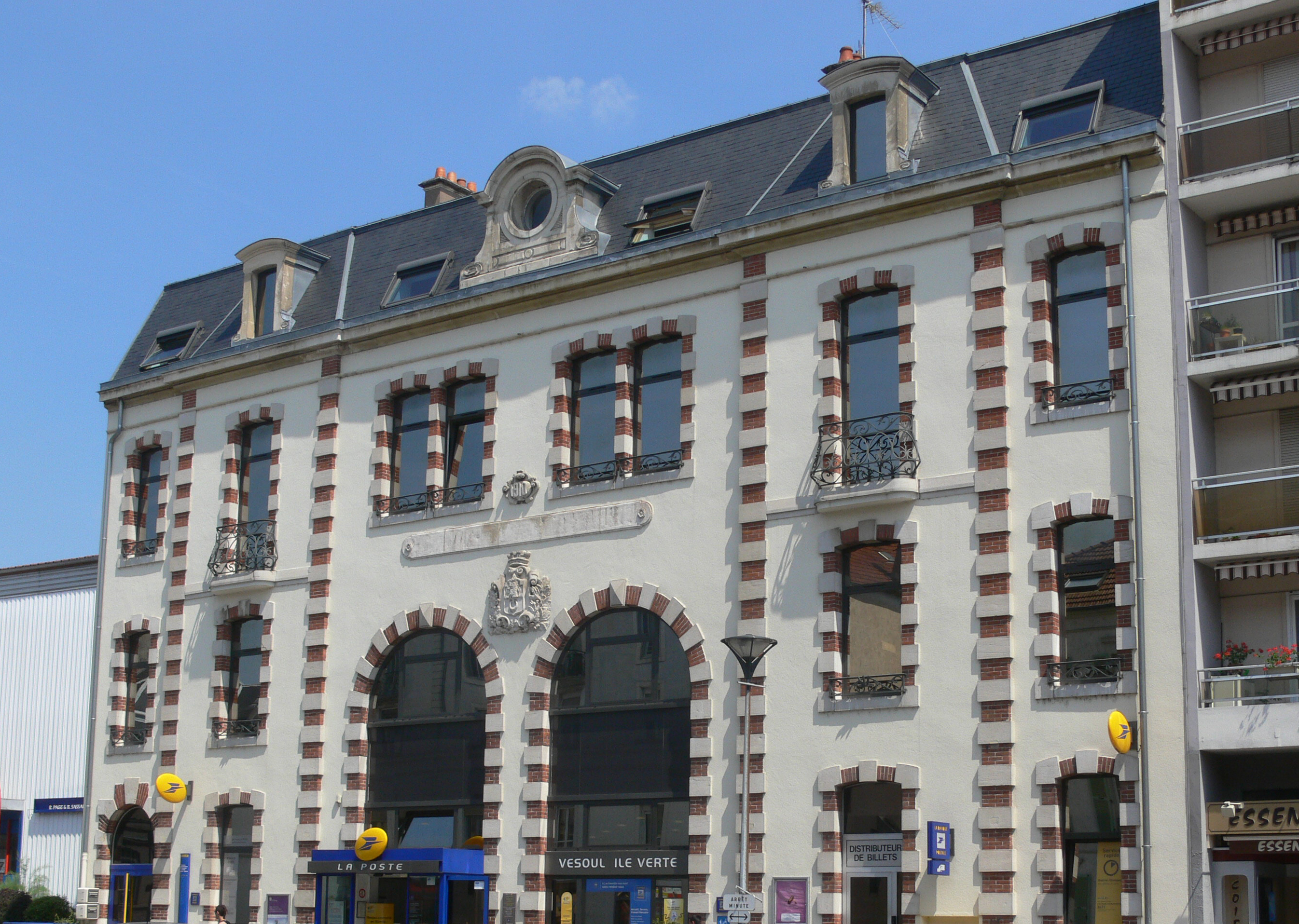 Vesoul post office, former tram station